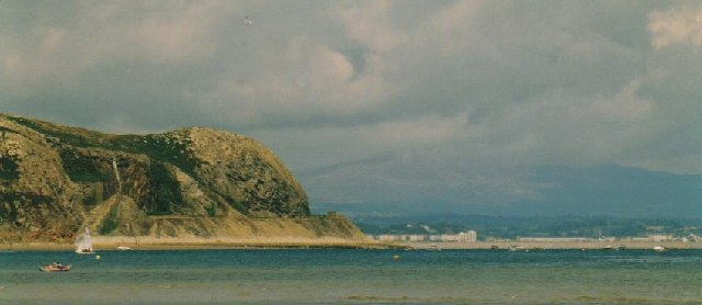 Llanbedrog Headland Viewed From Abersoch.